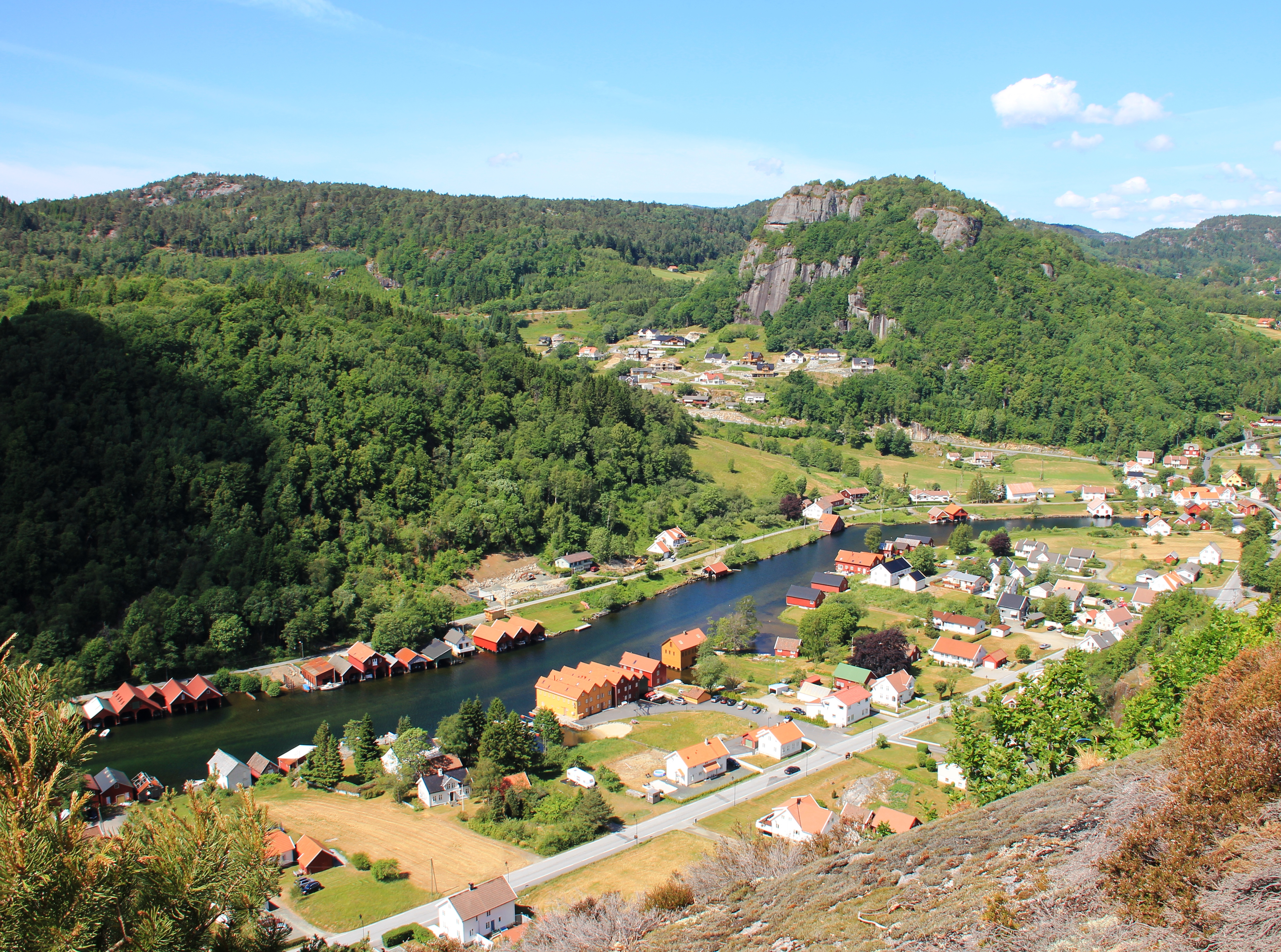 Fedaelva, Feda river in Feda, Kvinesdal